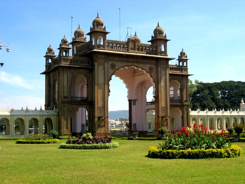 Author: thejarvii The author has agreed to have the image used on Wikipedia under the creative commons attribution sharealike license as mentioned in the comments.